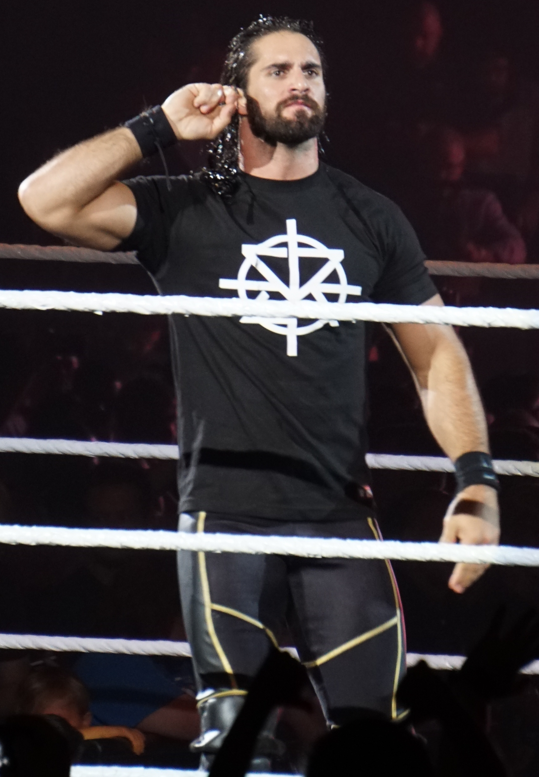 Seth Rollins in September 2016